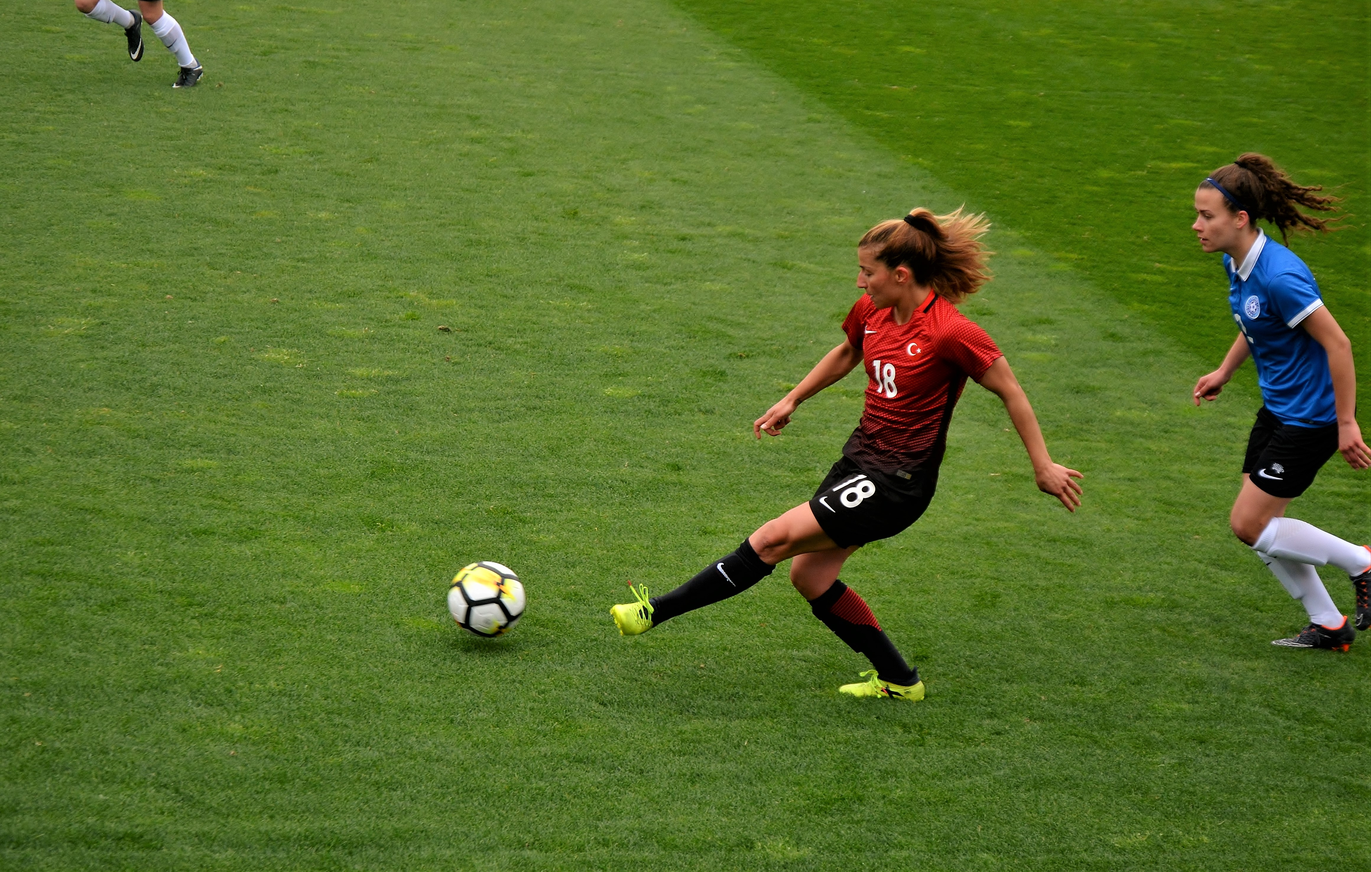 Fatma Işık playing for Turkey women's national football team in the friendly home match against Estonia at TFF Riva Facility on 7 April 2018.